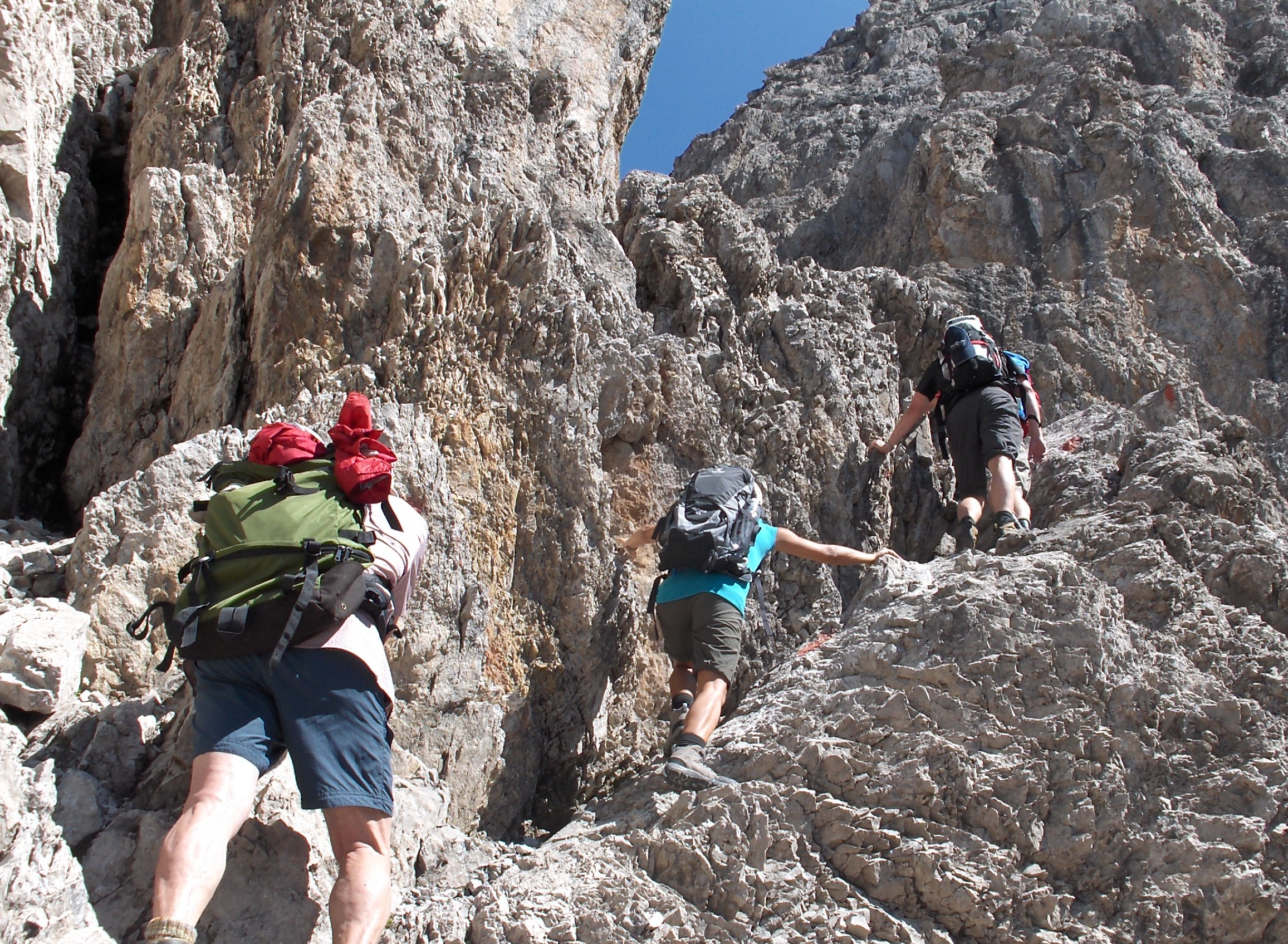 Usual route to the Dremelspitze, Lechtal Alps, Tyrol, Austria